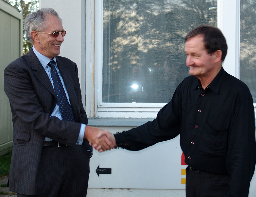 Printmaker Hans-Peter Haas (r) with artist James Rizzi (l)